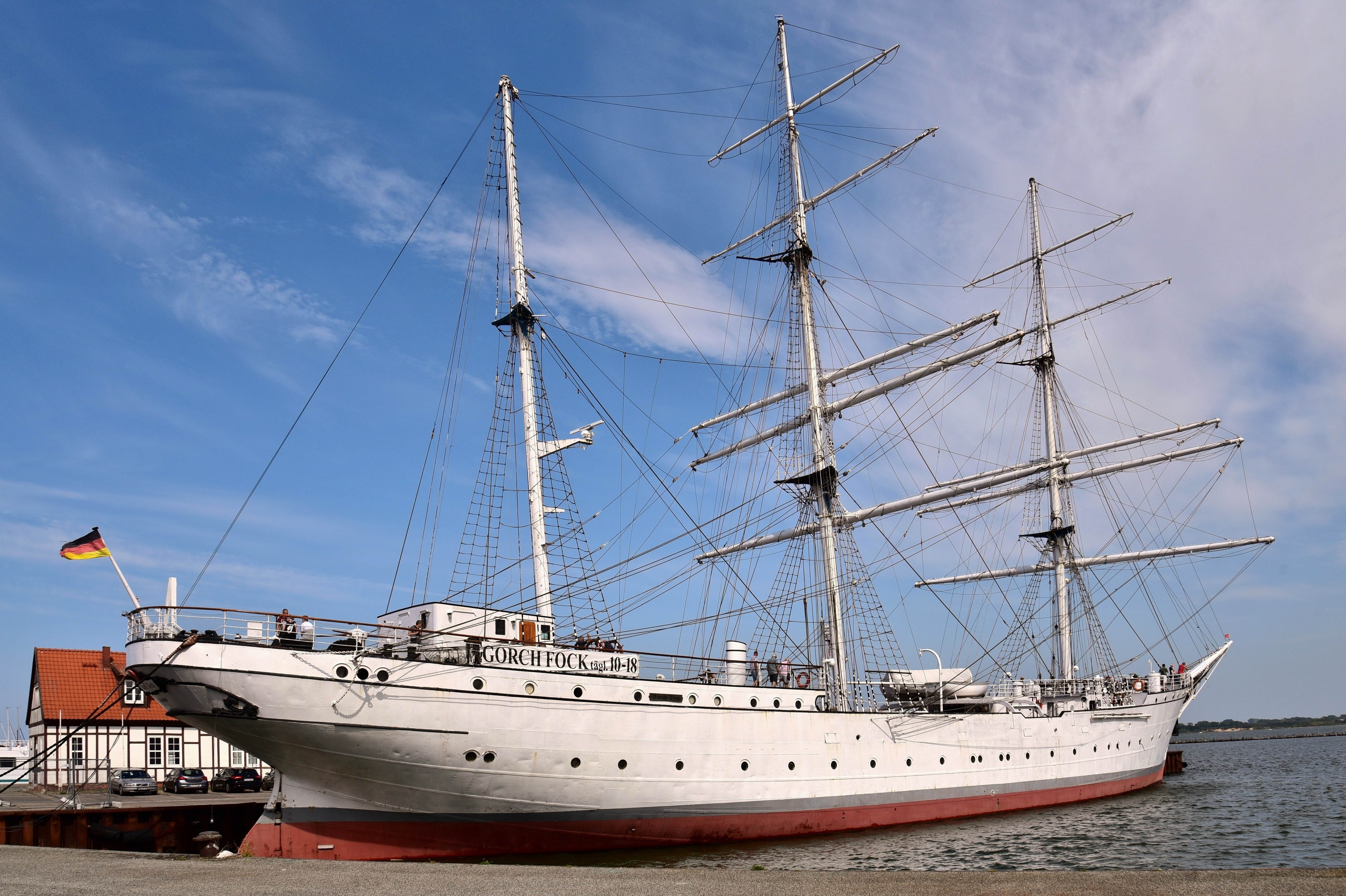 The former training ship Gorch Fock (1933), in Stralsund, Germany